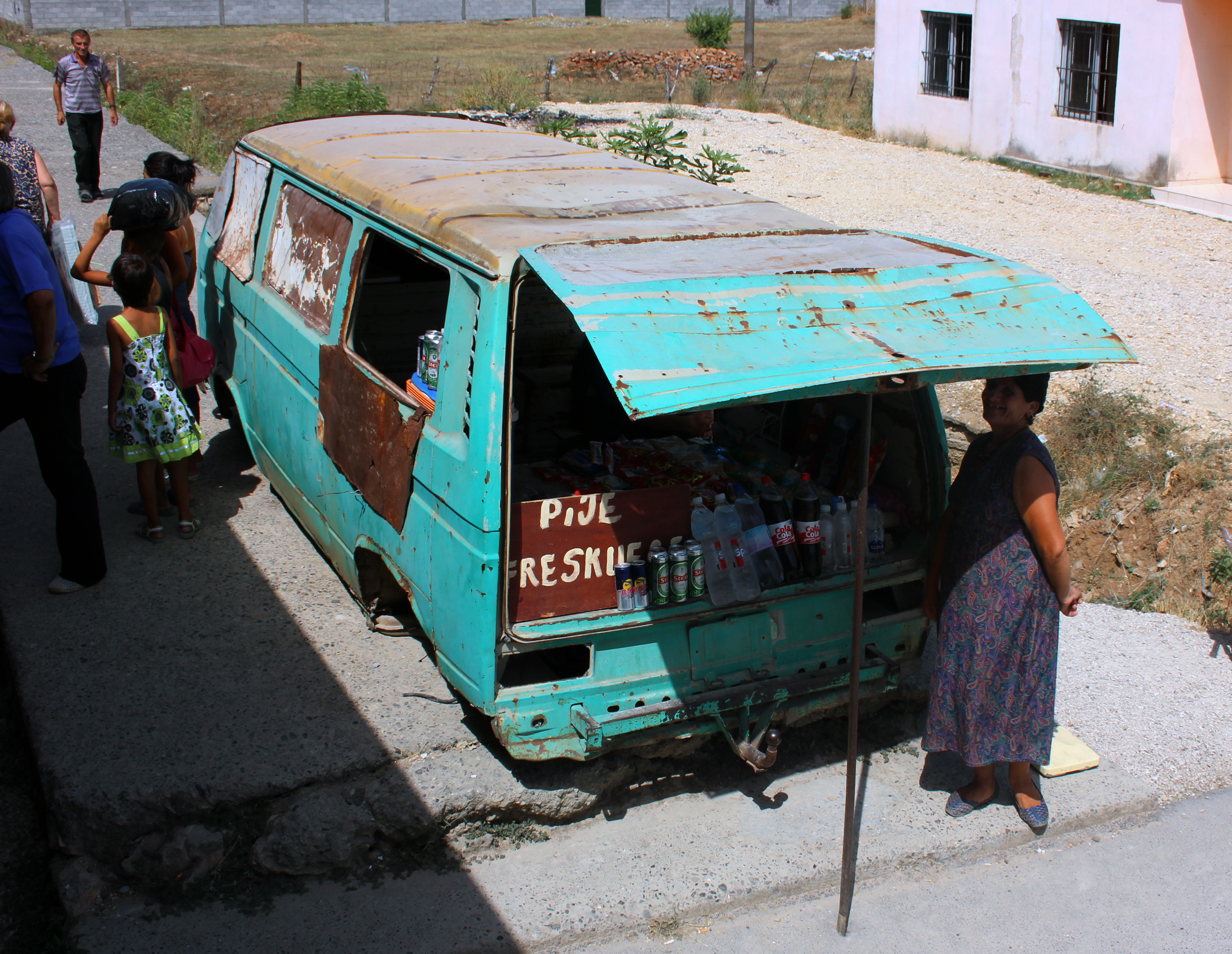 Kiosk in a gutted VW bus T3 on a platform in Albania.